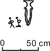 Martin Bale redrew this image from original by Jeonnam University Museum, 1992. Yeosu-si Orim-dong Jiseok-myo [Excavation Report of Orim-dong Megalithic Burials, Yeosu]. Jeonnam University Museum, Greater Gwangju.